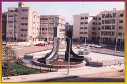 Faculty of Medicine, Zagazig University Hospitals